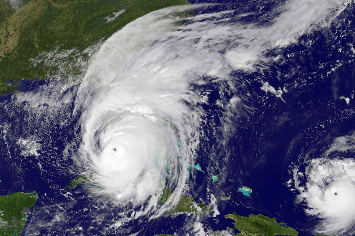 Hurricane Irma passes Cuba and approaches southern Florida on Sunday, Sept. 10, 2017, in a NASA satellite captured a night-time image of the storm in the Florida Straits and identified where the strongest storms were occurring within Irma's structure. NOAA's GOES-East satellite provided a visible image at the time of Irma's landfall in the Florida Keys. NASA photo